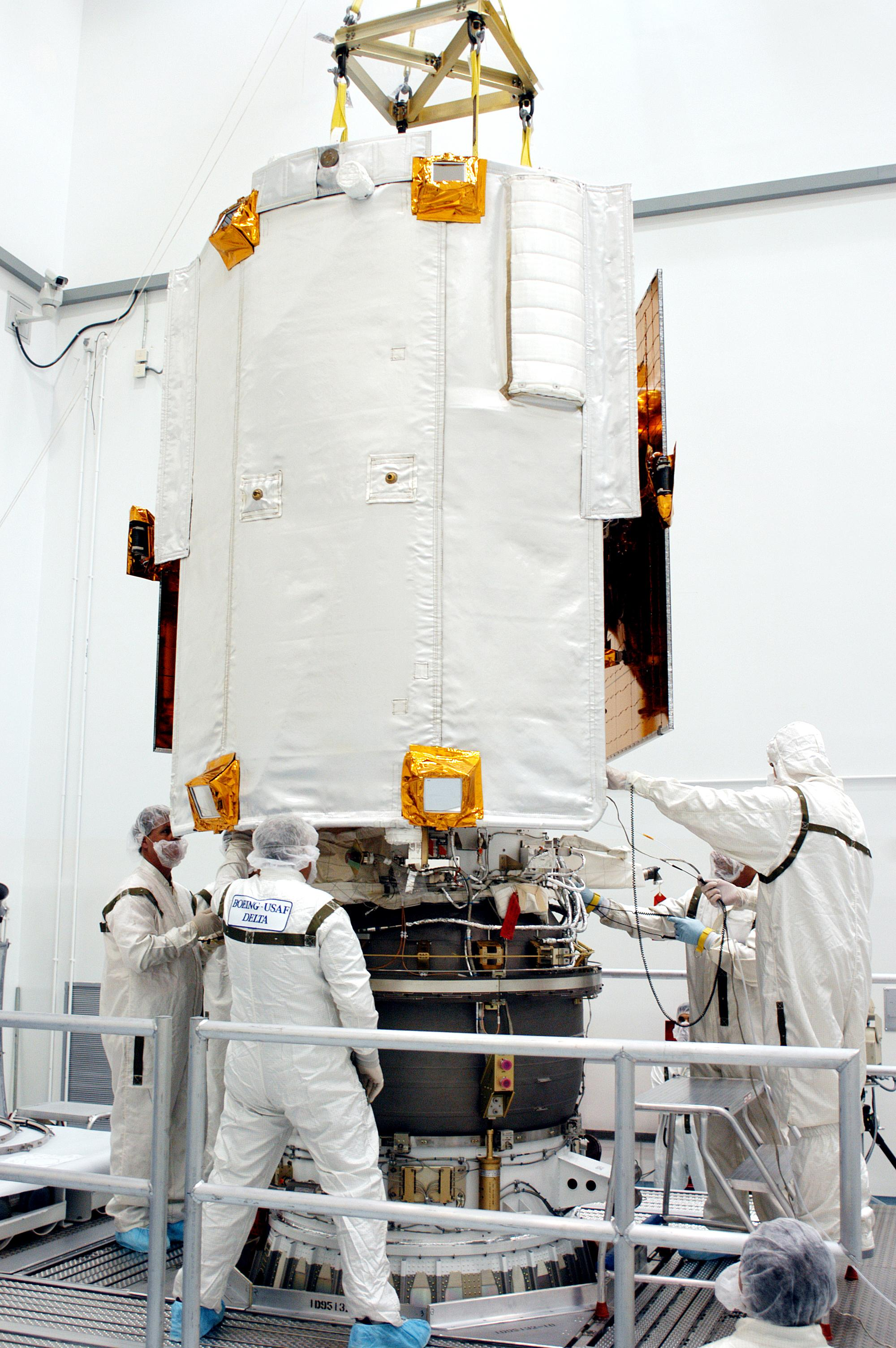 KENNEDY SPACE CENTER, FLA. - Technicians at Astrotech Space Operations in Titusville, Fla., work on the back side of the MESSENGER spacecraft, mating it with the Payload Assist Module, the Boeing Delta II third stage, below. The white panel seen here is the heat-resistant, ceramic cloth sunshade that will enable MESSENGER to operate at room temperature. MESSENGER (Mercury Surface, Space Environment, Geochemistry and Ranging) is scheduled to launch Aug. 2 aboard a Boeing Delta II rocket from Pad 17-B, Cape Canaveral Air Force Station, Fla. It will return to Earth for a gravity boost in July 2005, then fly past Venus twice, in October 2006 and June 2007. It is expected to enter Mercury orbit in March 2011. MESSENGER was built for NASA by the Johns Hopkins University Applied Physics Laboratory in Laurel, Md.